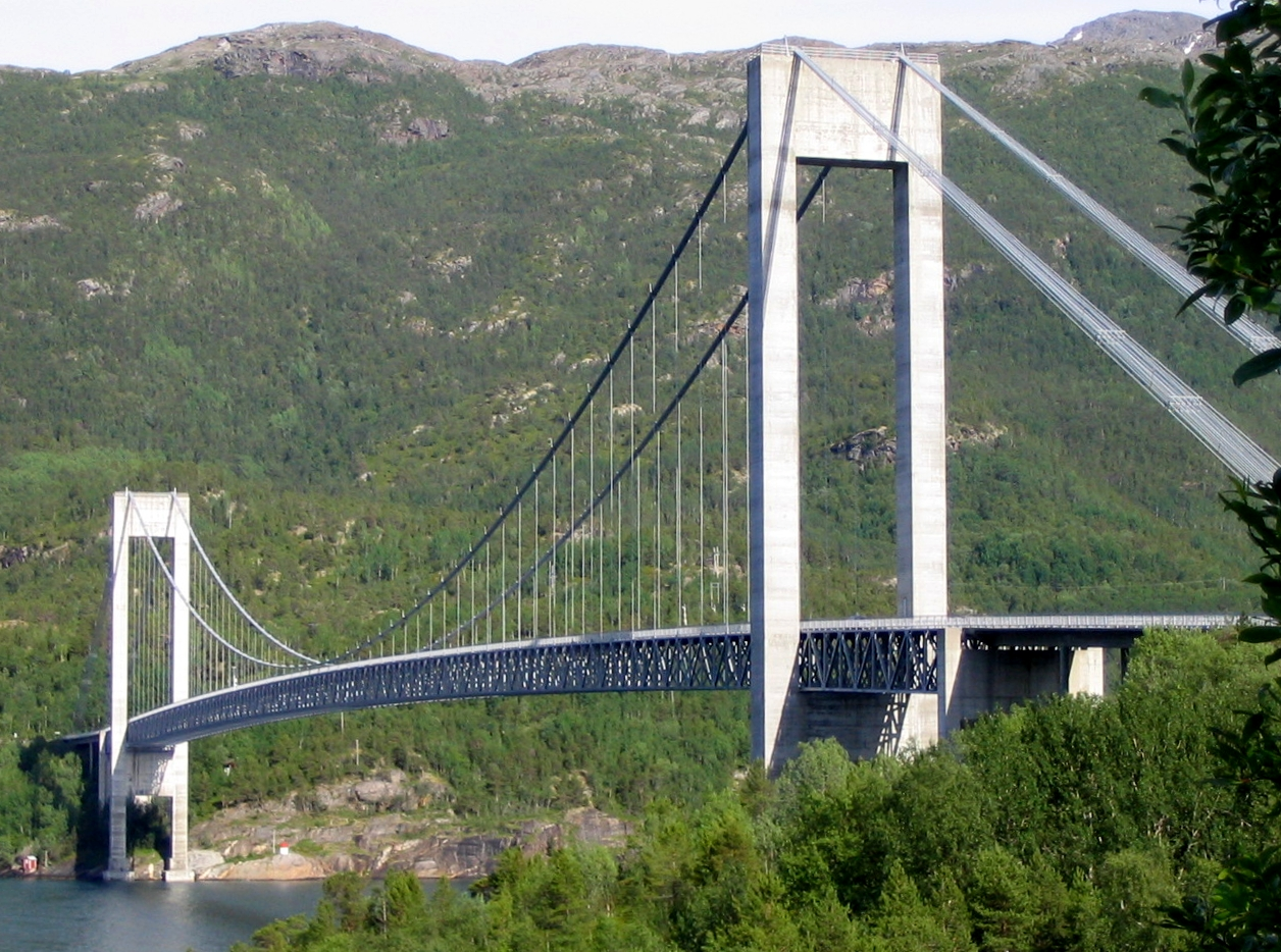 The Skjomen Bridge crosses the fjord Skjomen near the town of Narvik in Norway